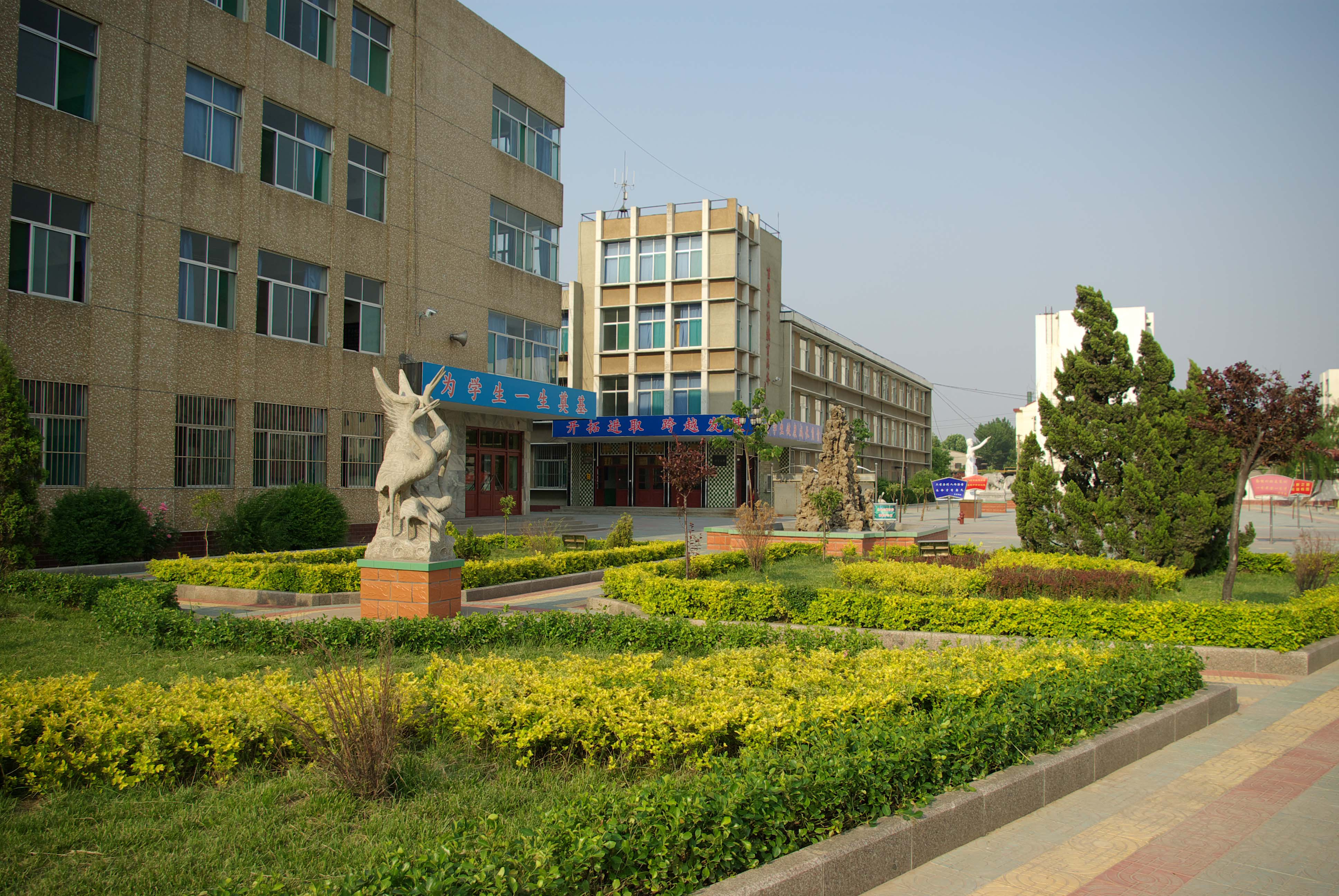 The Junior School of Gaoqing County in Eastern China